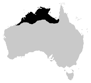 Distribution of the Giant Frog (Cyclorana australis) User:Froggydarb/GFDL-self